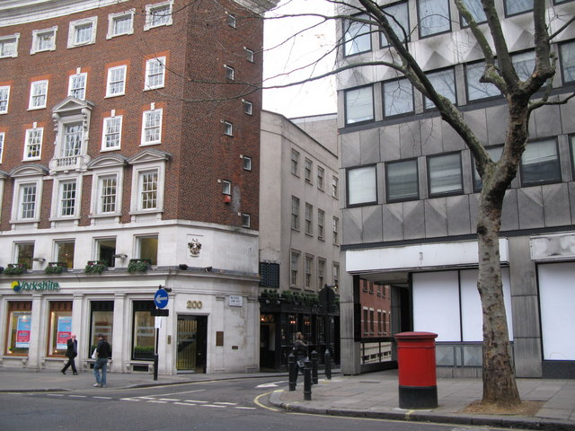 The Strand / Milford Lane, WC2 Shows the location of 1132653.